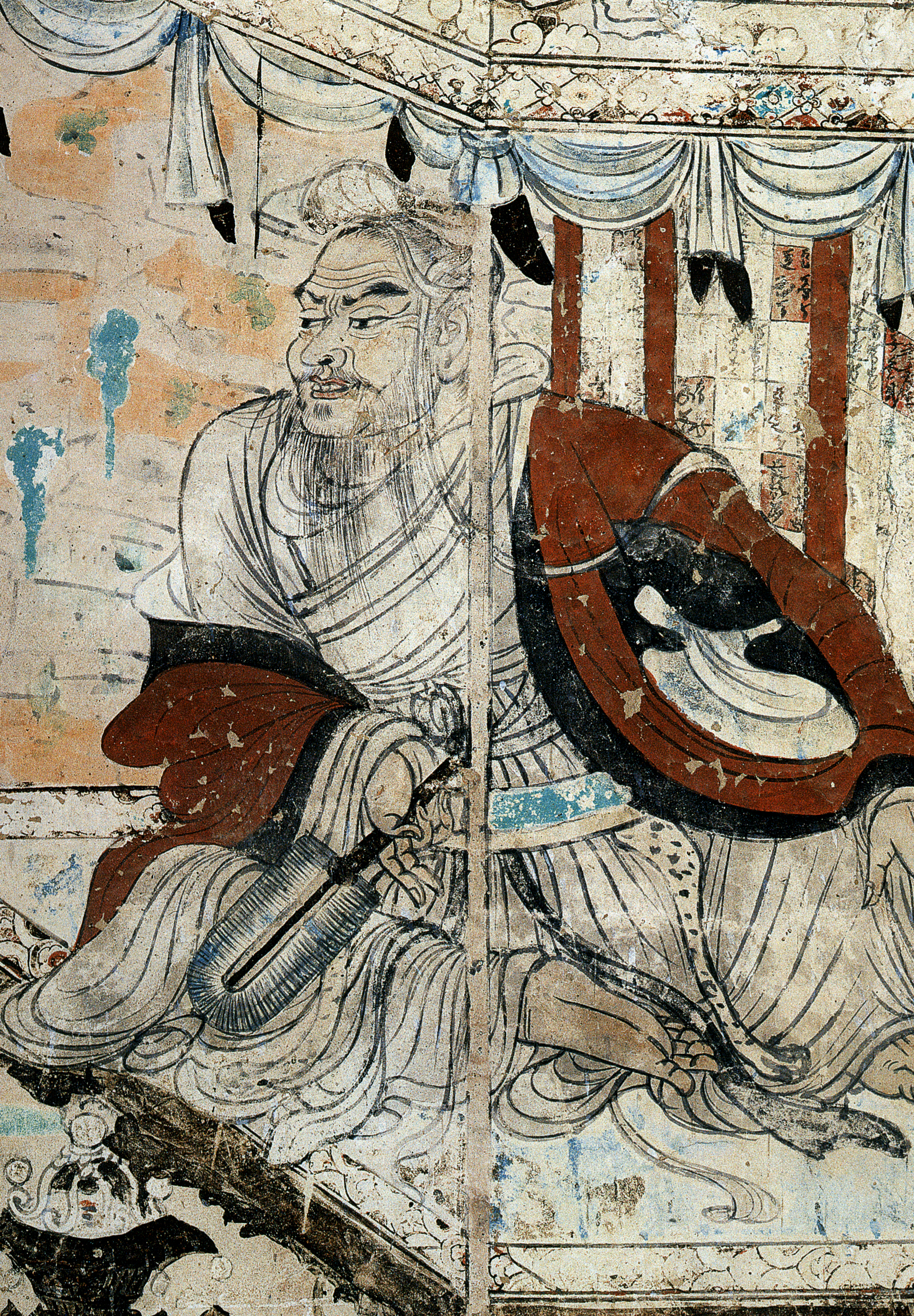 Vimalakirti in debate with the bodhisattva Manjusri, detail from a wall painting in Cave 103 of Dunhuang, Gansu province, China, dated to the Tang Dynasty, 8th century